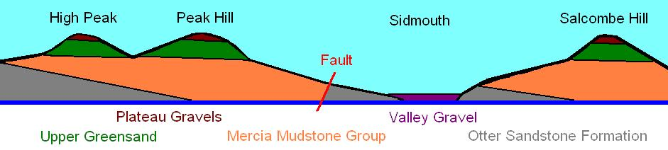 Geology of the Sidmouth coast line